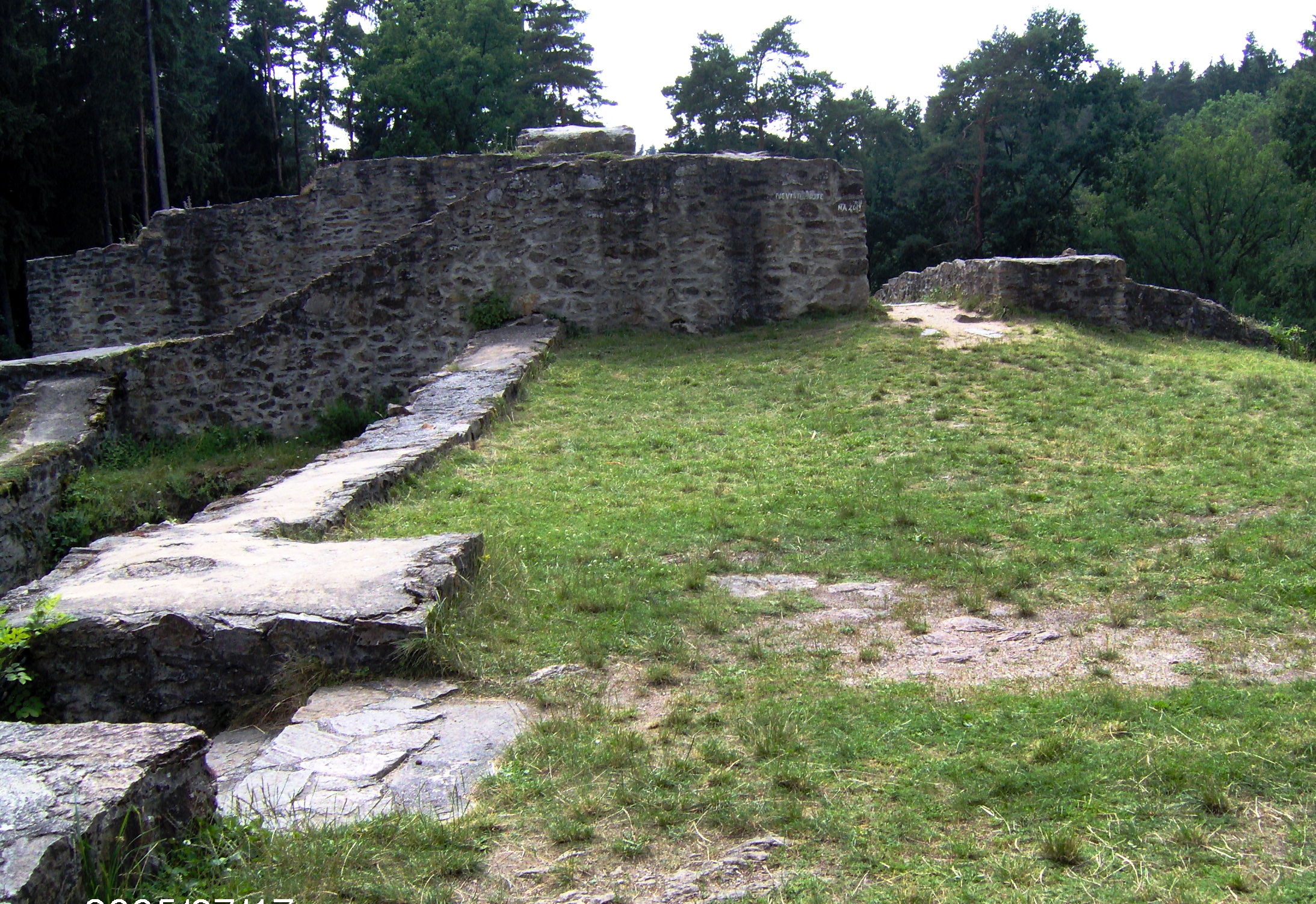 Kozí Hrádek castle ruin near Tábor, Czech Republic.